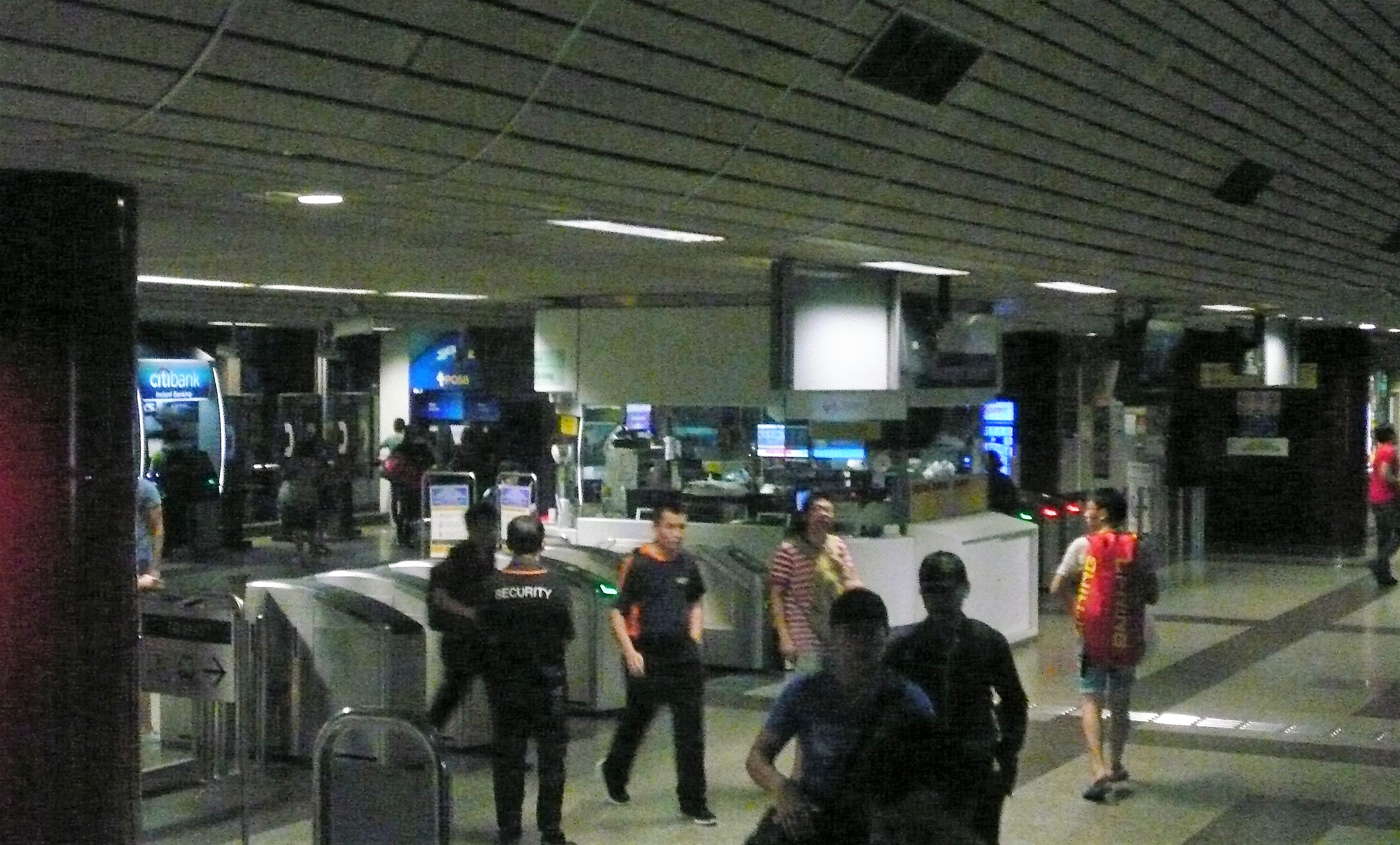 Yio Chu Kang MRT Concourse